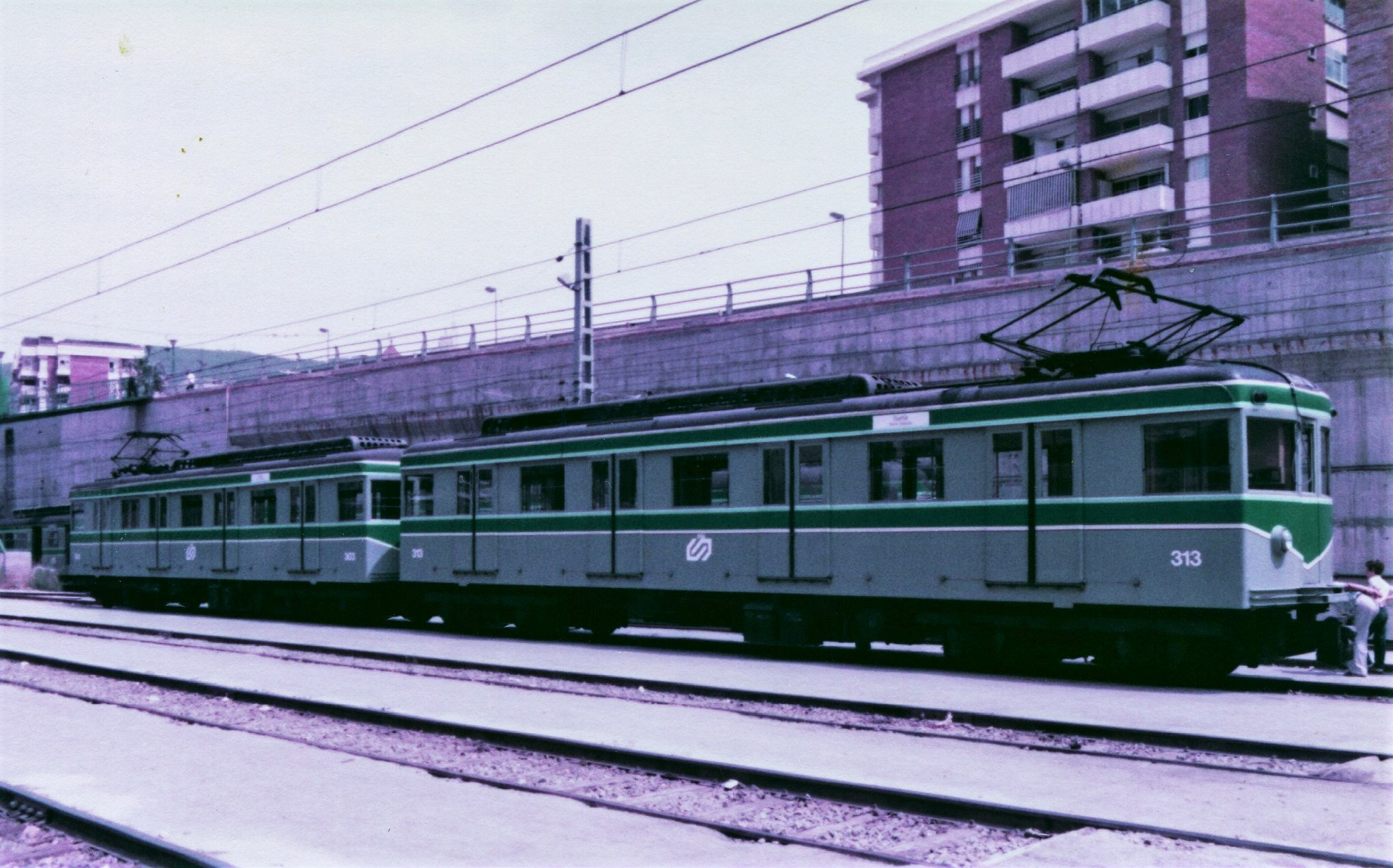 The EMU of Ferrocarrils de la Generalitat de Catalunya formed by cars 303 and 313, rented second-hand to the Metropolitan Railway of Barcelona, in the workshop of Sarrià.